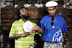 Ying Yang Twins Kaine and D-Roc captured by foto di matti in Berlin right before their concert.